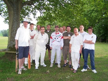 Etchingham & Fontridge Cricket Club XI, 2006, newly-formed team after their first match